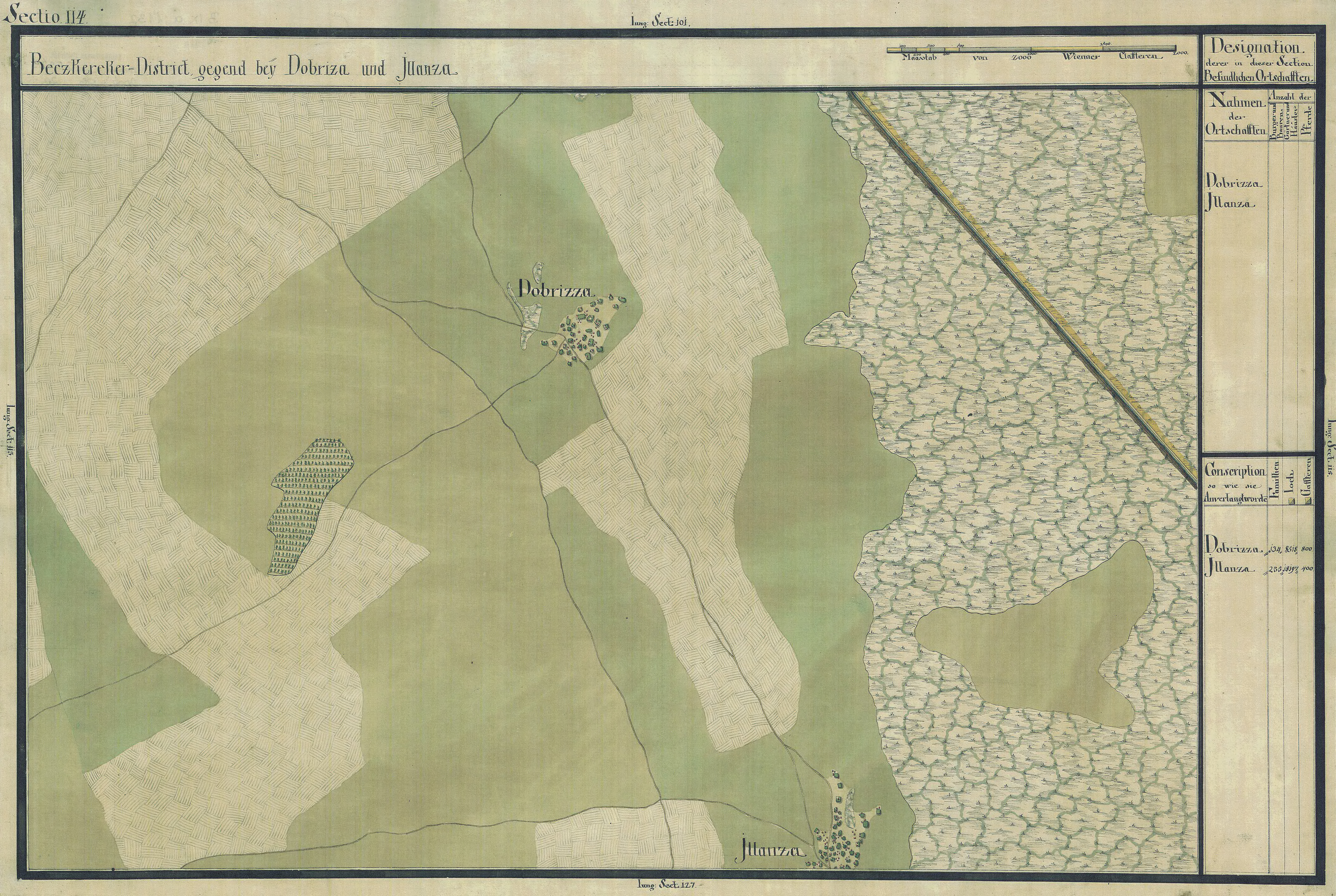 The Banat region in the cadastral maps: Josephinische Landesaufnahme, 1769-72. Josephinische Landaufnahme pg114